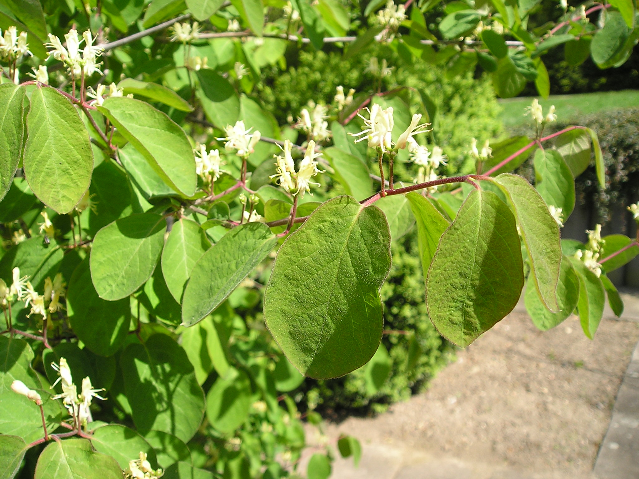 Annual shoot of fly honeysuckle with leaves and flowers (Botanical garden and Arboretum of Mendel university in Brno, April 2014).